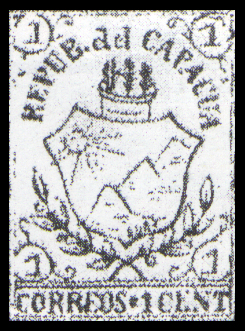 Stamp of the extinct country Republika del Capacua.